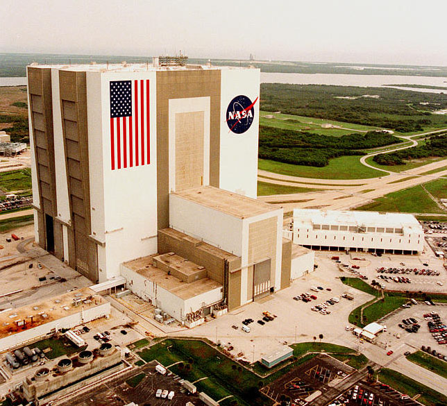 NASA's Vehicle Assembly Building